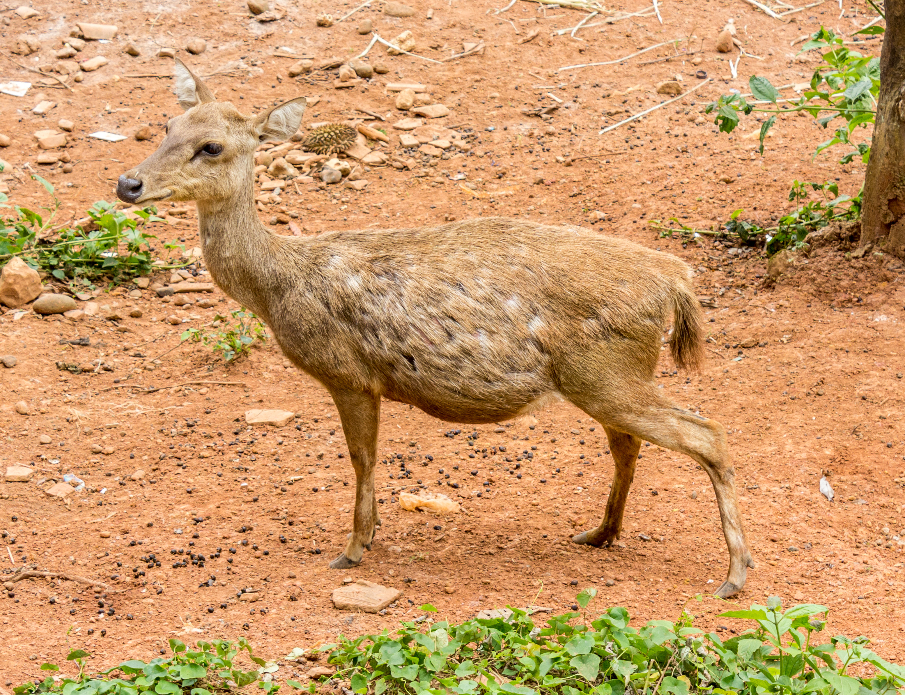 Rusa timorensis